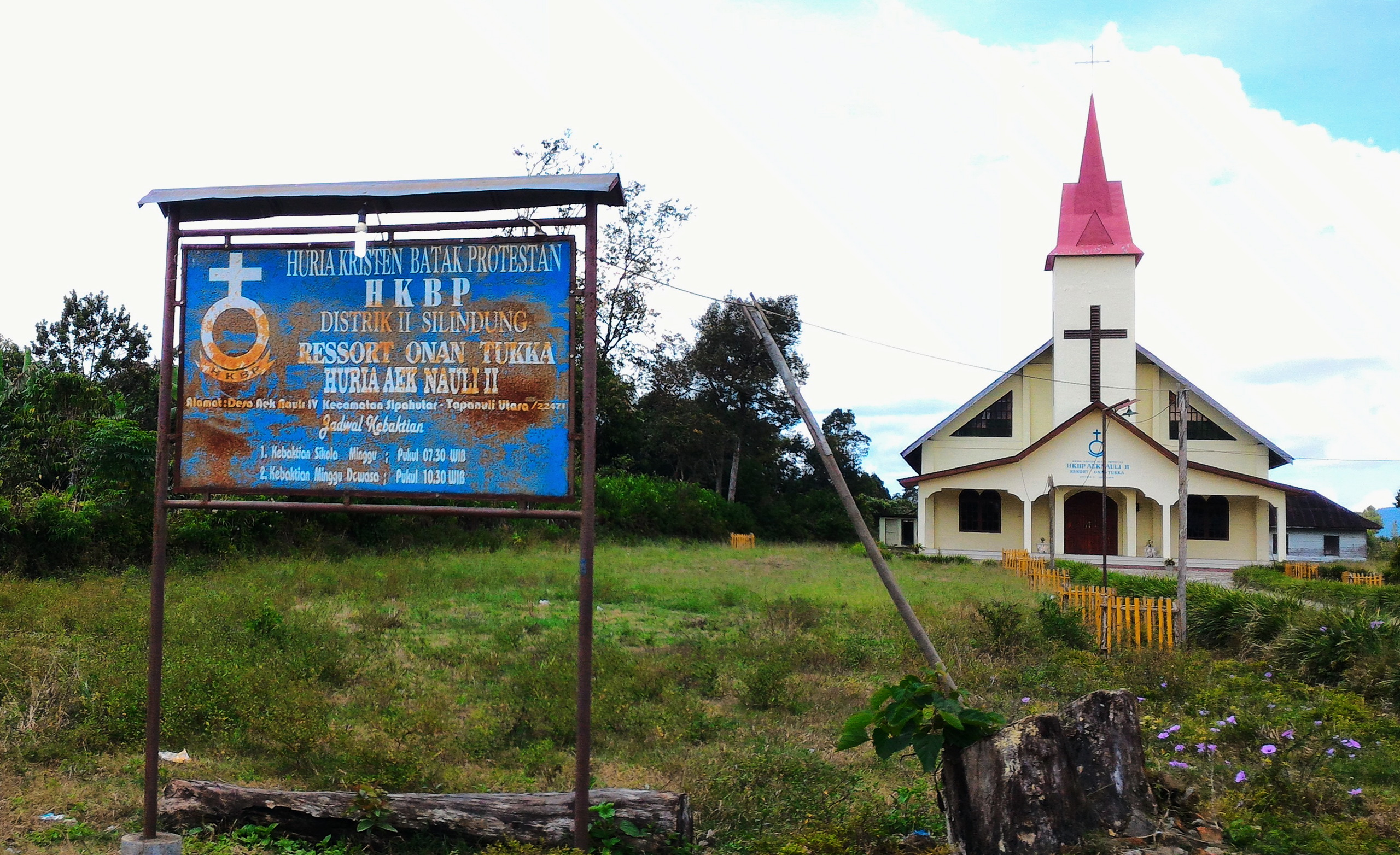 HKBP Aek Nauli II Church in Aek Nauli II, Sipahutar, North Tapanuli